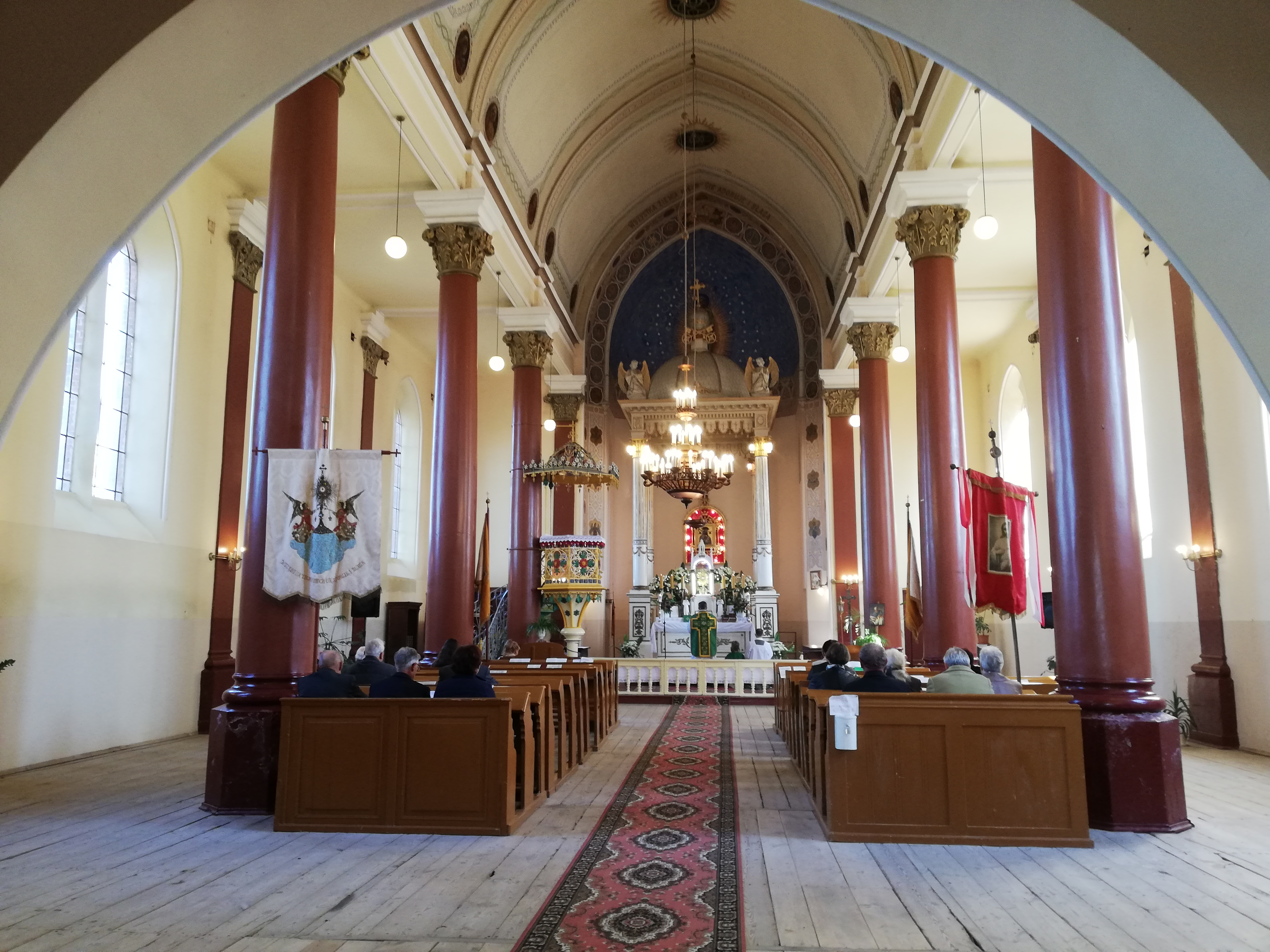 Church interior in Nowa Sobotka